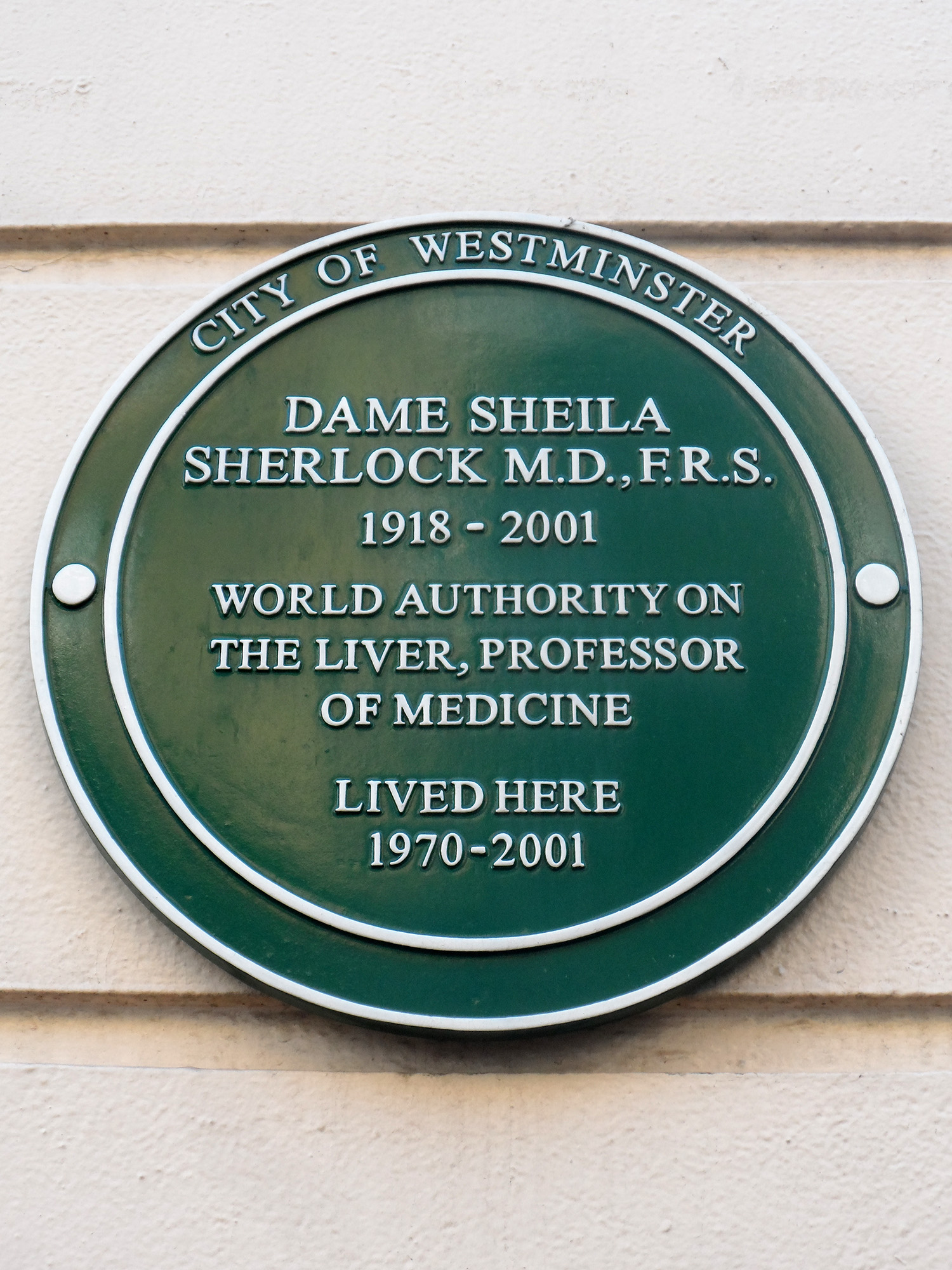 Green plaque erected by the City of Westminster at 41 York Terrace East, Westminster, NW1